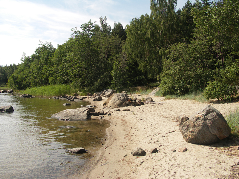 A beach at Vitfågelskär, Vörå-Maxmo, Finland